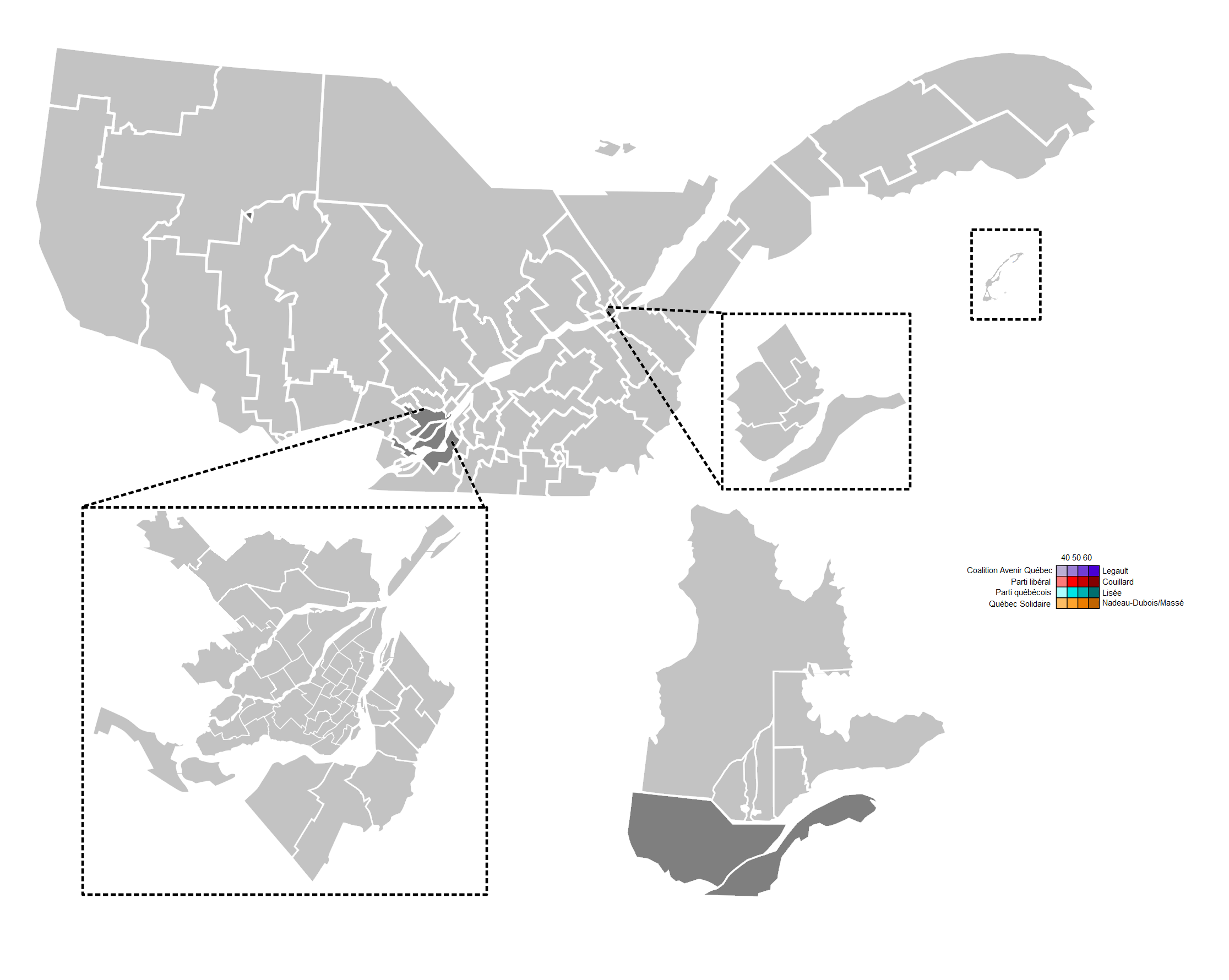 Map of Quebec 2018 election results.